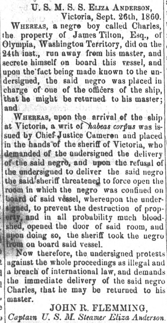 Protest by captain steamer Eliza Anderson against Canadian court which ordered him to release a person escaping from slavery held aboard his ship, published in Pioneer Democrat, Olympia, Washington Terr.